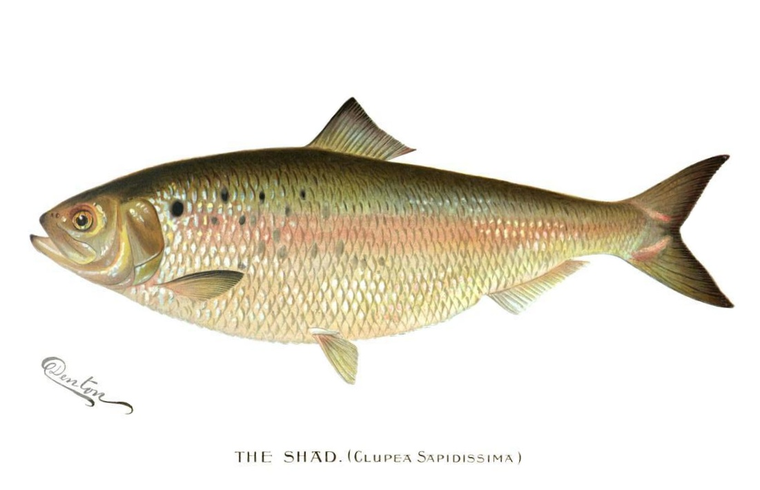 The Shad as drawn by Shermon Foote Denton Alosa sapidissima syn. Clupea sapidissima